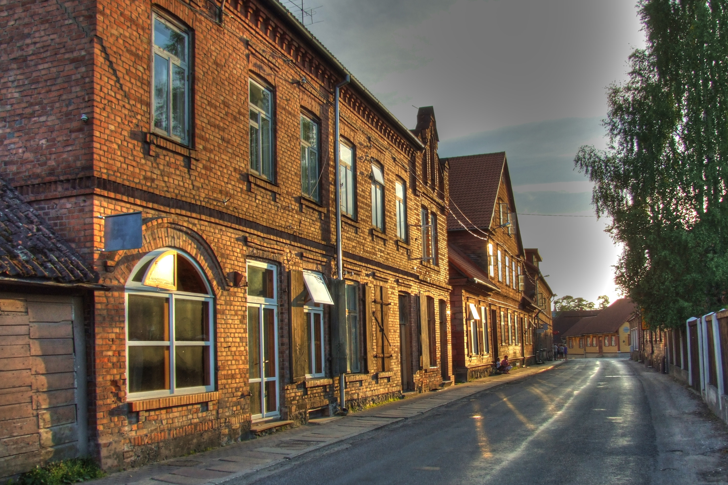 Kauba street, Viljandi